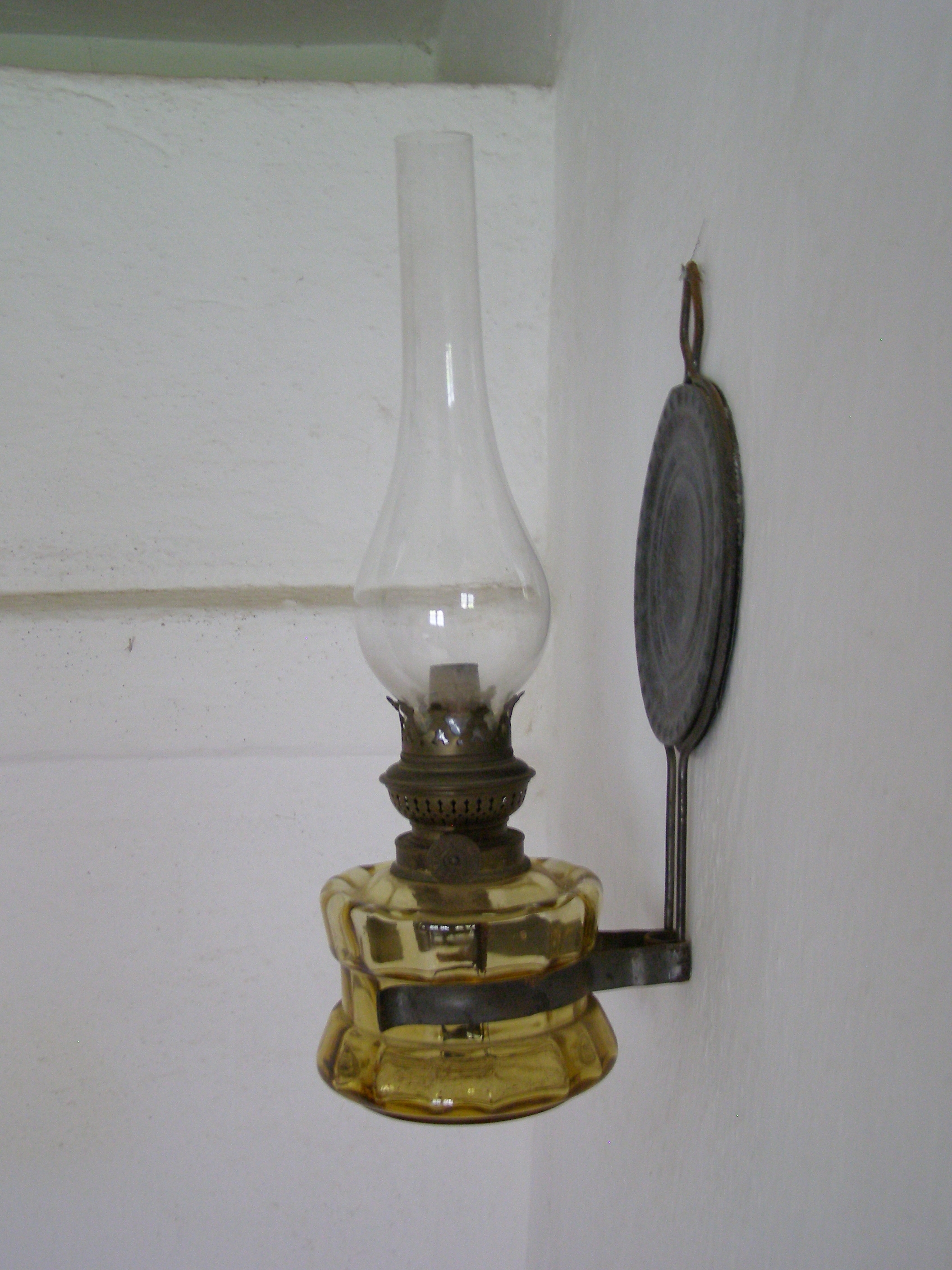 Wdzydze Kiszewskie - Kashubian Ethnographic Park - kerosene lamp